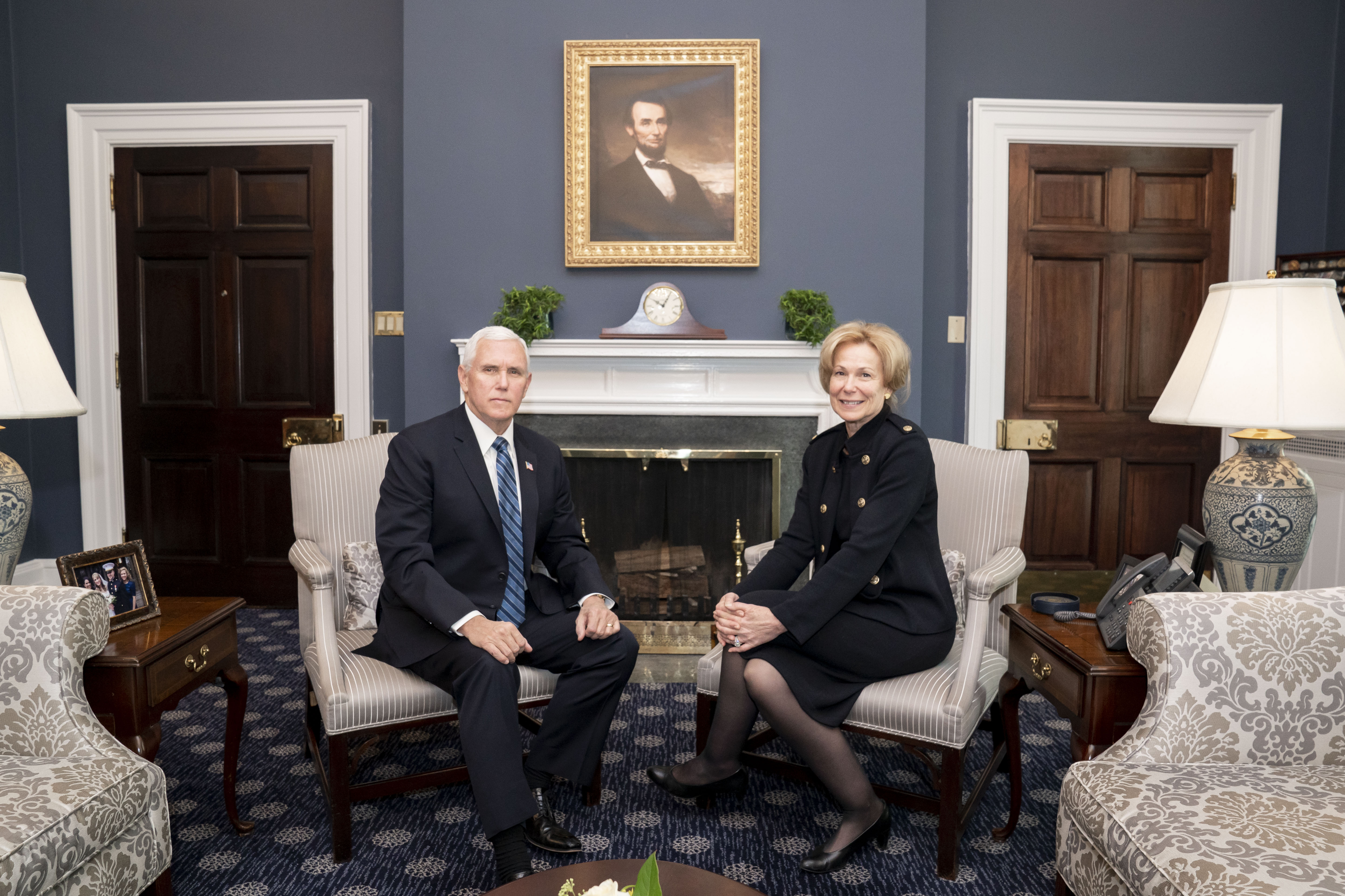 Vice President Mike Pence poses for a photo with White House Coronavirus Response Coordinator, Ambassador Deborah Birx Monday, March 2, 2020, in the West Wing Office of the White House. (Official White House Photo by Andrea Hanks)